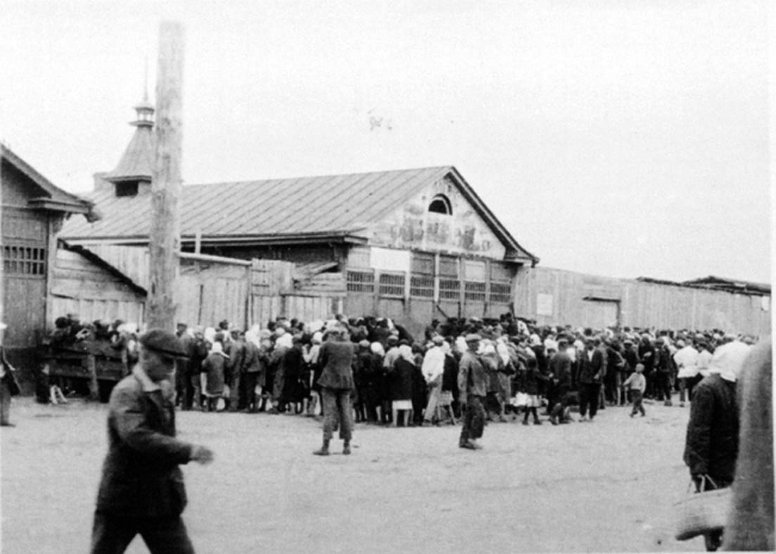 Photo from a time of Great Famine in Ukraine 1932